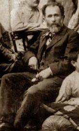 Alexander Roinashvili. 1897